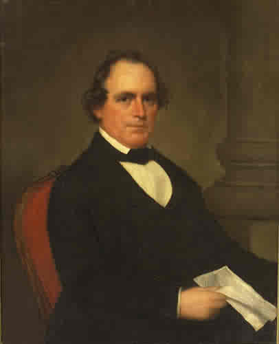 Richard Keith Call (24 October 1792 - 14 September 1862) on Florida Governors' Portraits, Oil on canvas, artist unknown, 19th century. Richard Keith Call was the third and fifth territorial governor of Florida (last term ended 1844), and did much to move the territory into statehood. He also ran for Governor in 1845 but other political affiliations caused his defeat.